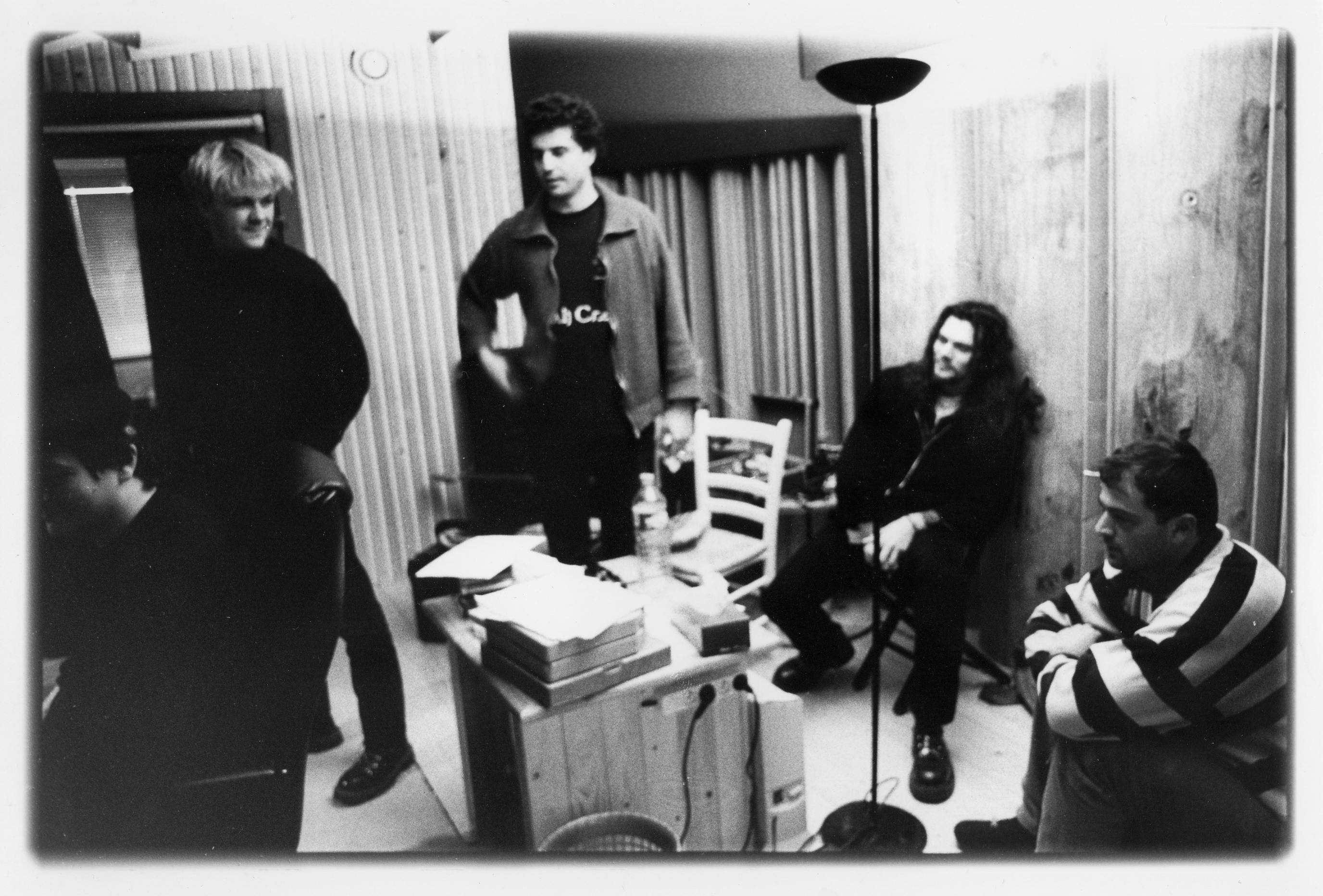 Witness during recording of "Grimace"